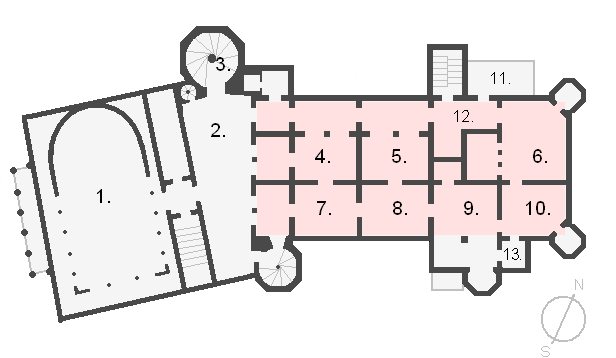 Floorplan of third level at Castle Neuschwanstein 1. Throne room 2. "Vorplatz" (outer court) 3. Main stair 4. Antechamber 5. Study 6. Drawing room 7. Antechamber 8. Dining room 9. Bedroom 10. Dressing room 11. Conservatory 12. Grotto 13. Private chapel Red areas mark the location of the Hall of the Singers above.